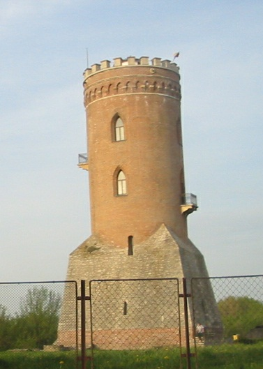 Turnul Chindiei in Târgovişte, Romania, built by Vlad Tepes (Dracula). 03